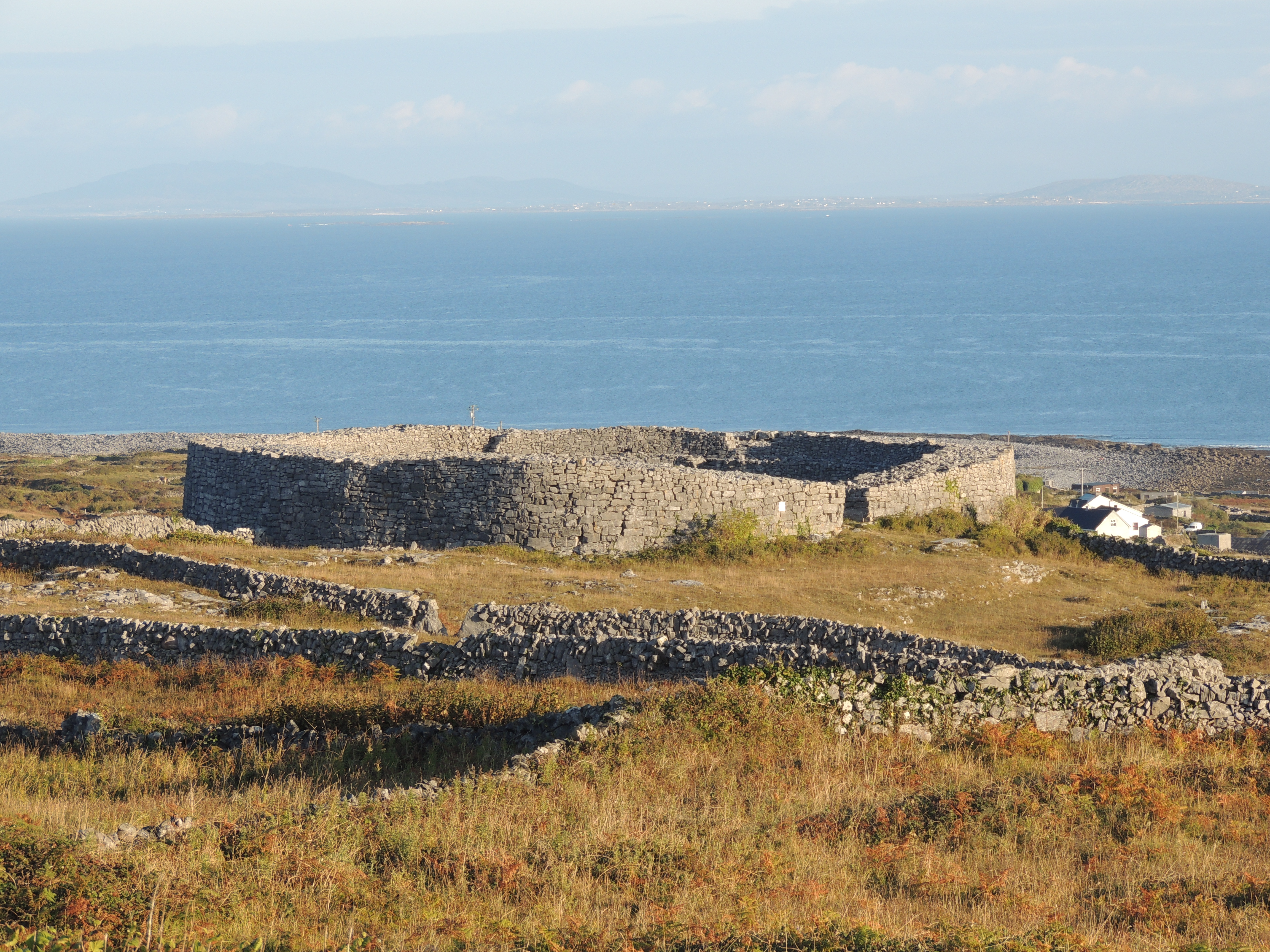 Onaght Cashel